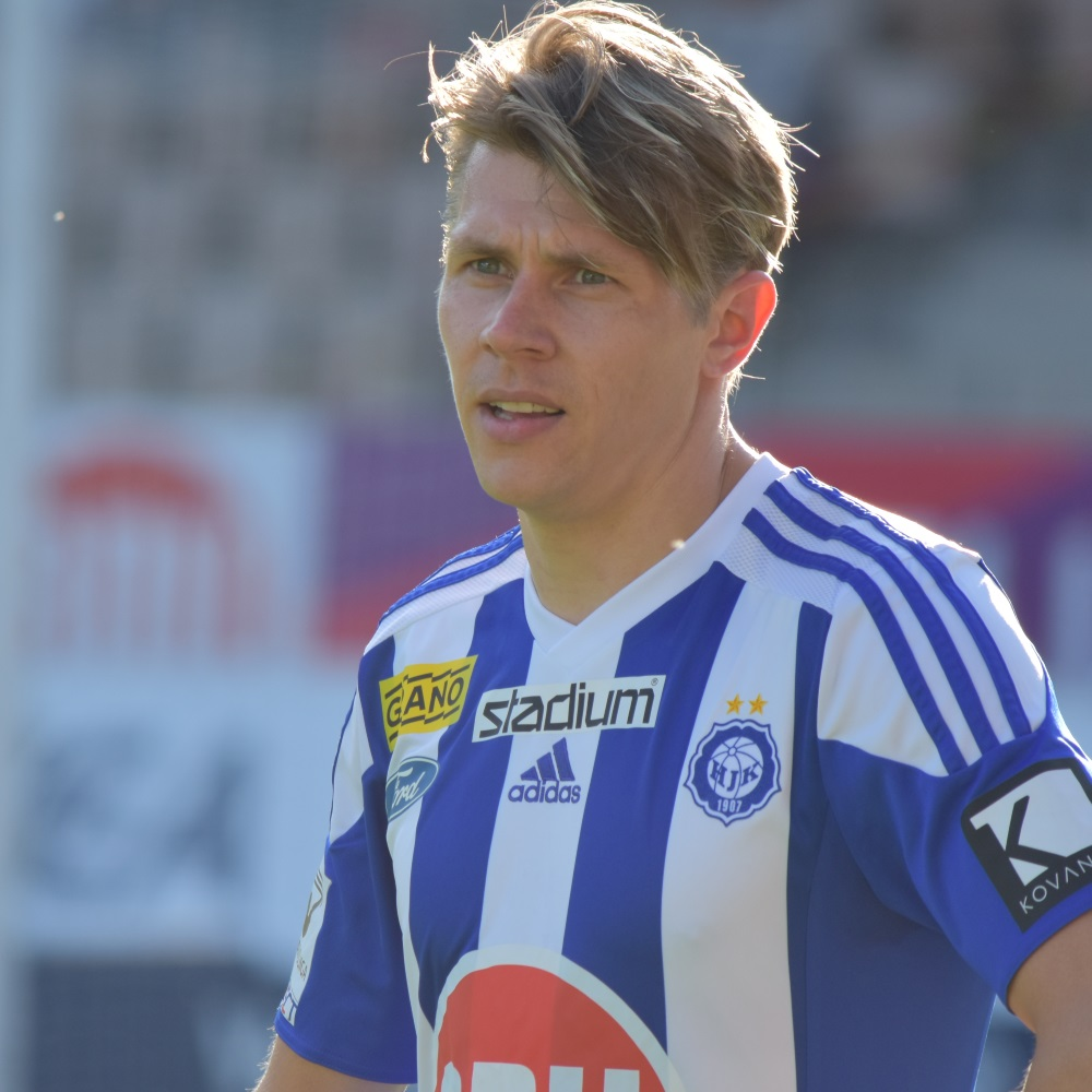 Association football player Riku Riski (HJK)